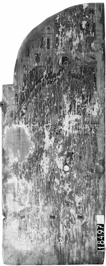 Royal doors from Saint Nicholas Church in Popadija, 17th Century